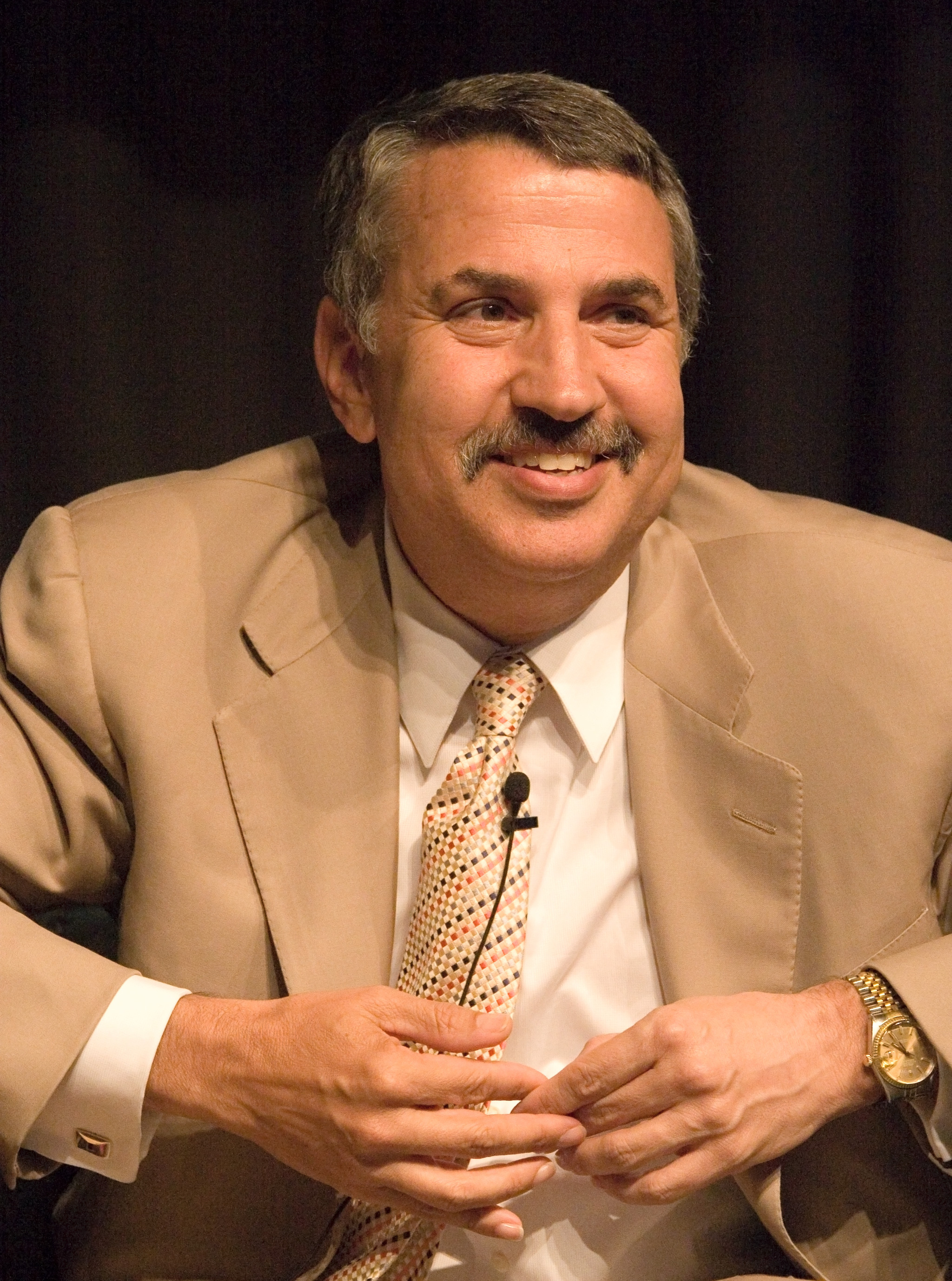 Thomas Friedman, American journalist, columnist, author and three-time winner of the Pulitzer Prize, currently working as an op-ed contributor for The New York Times.